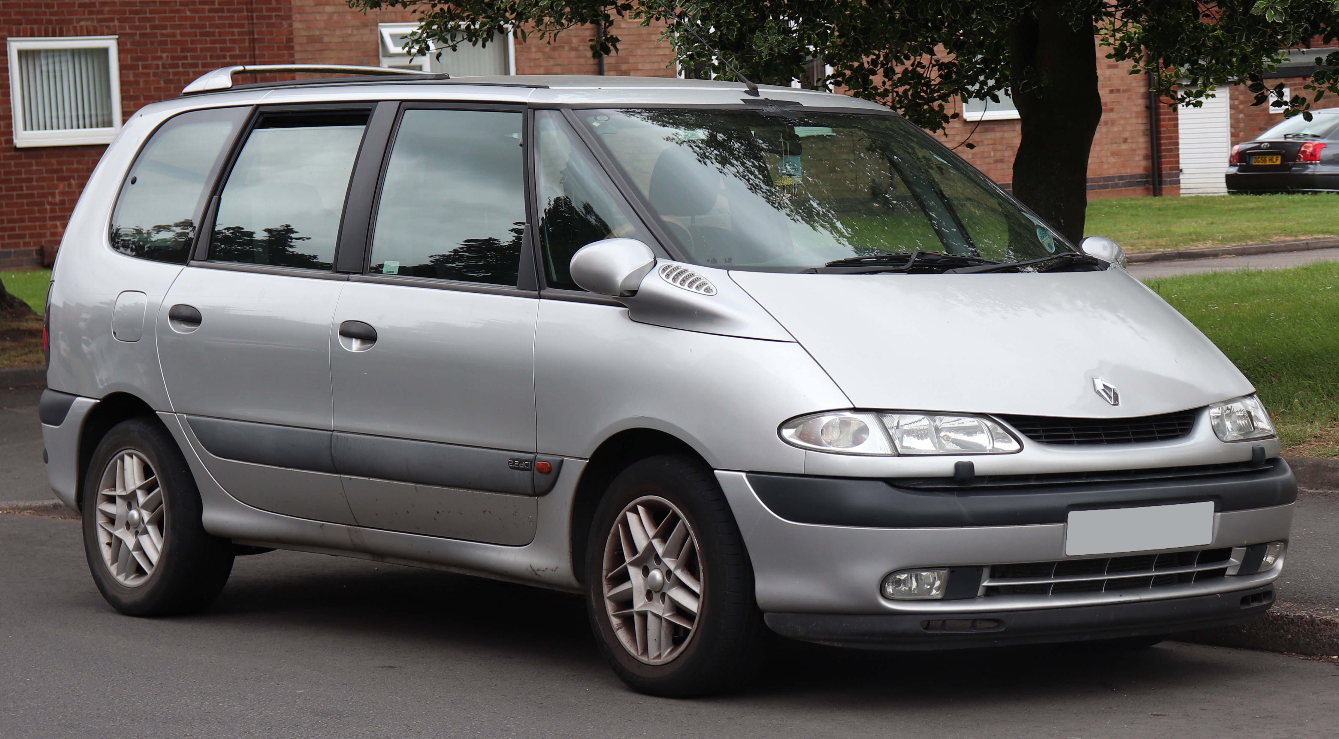 2002 Renault Espace Expression DCi 2.2 Front Taken in Leamington Spa